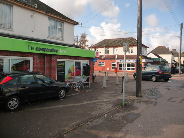 Creekmoor: the post office We look across the junction of Benmoor Road onto Creekmoor Lane – there has been a post office here since 1936 and it has moved in fairly recent years from the northern corner (the fish and chip shop) to the general store on this side.